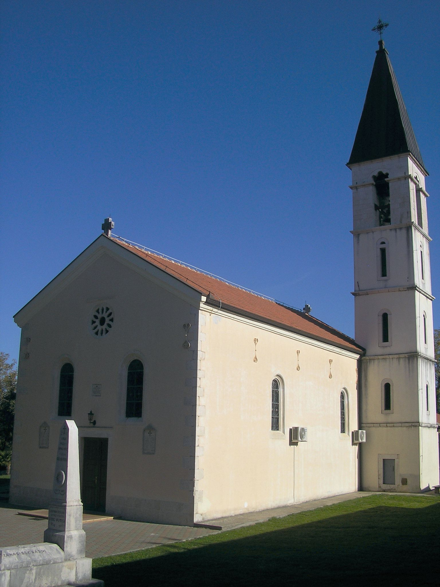 St. Michael (archangel) church, Prenj (Stolac), BiH